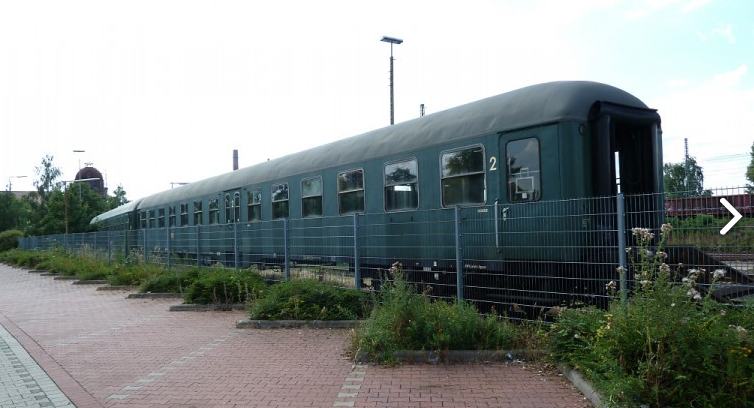 German (DB) railroad car for semi-rapid trains, class B4ymg